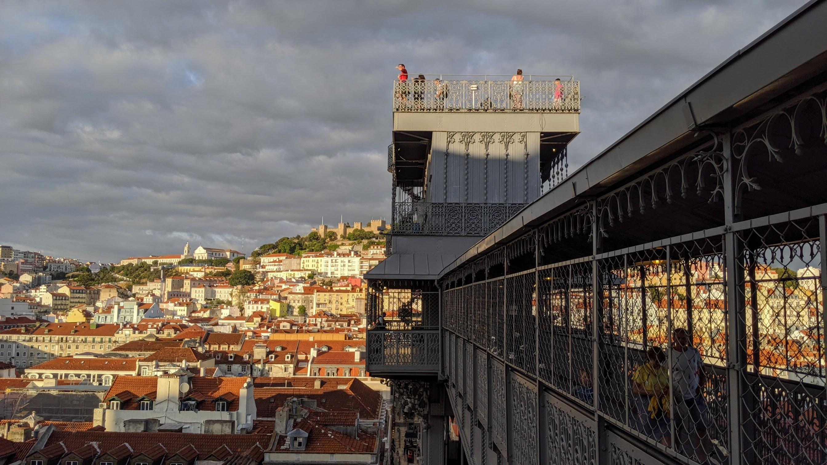 Santa Justa Lift observation deck with Castelo de São Jorge behind. The Kiosk that was previously on top of the observation deck is no longer there (in 2019).